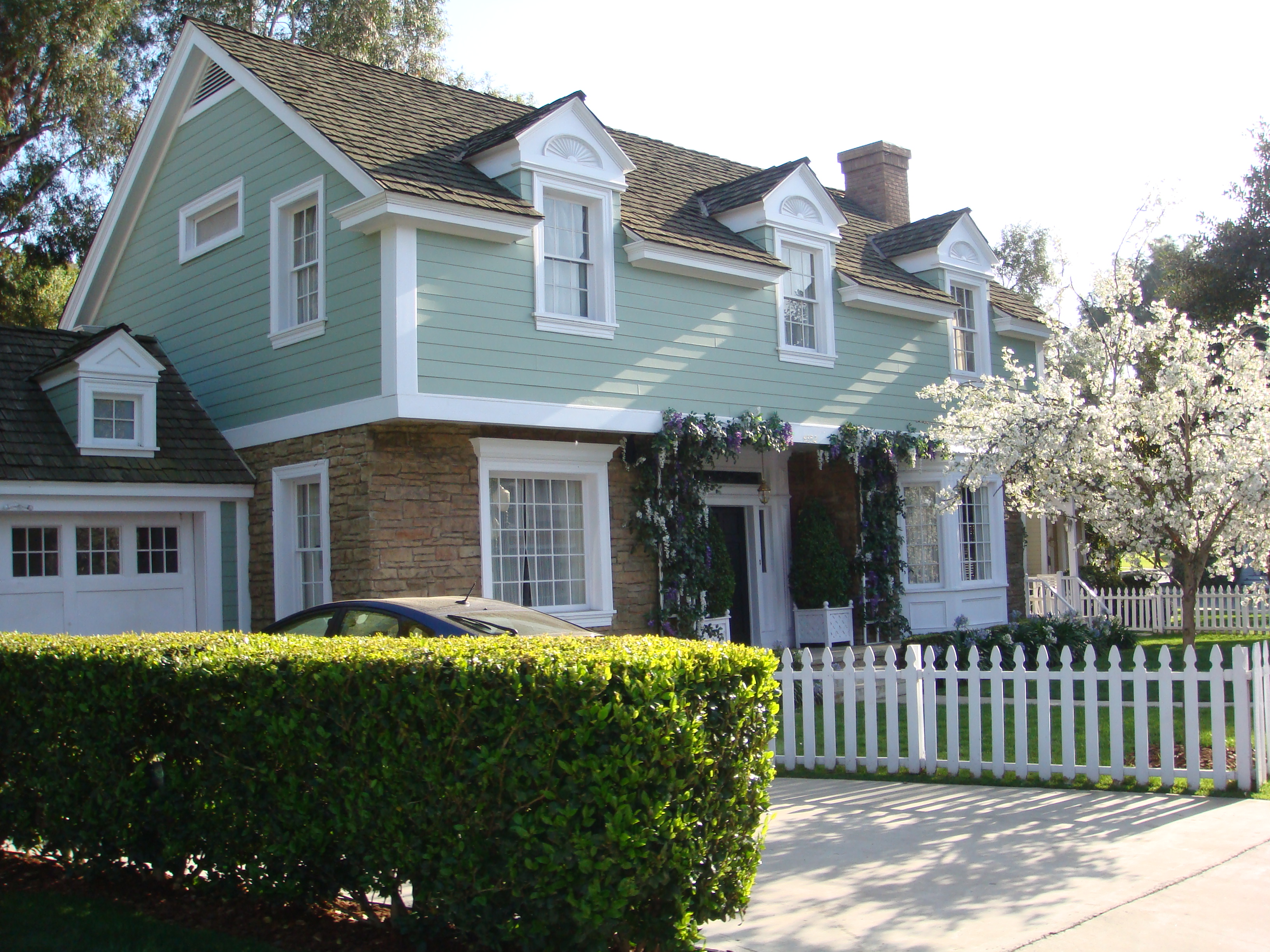 Photo representing the "Morrison Home", as it looks since 2008, featured in the movie Leave It to Beaver (a remake of the TV series of the of the same name). In Desperate Housewives, the house is located on 4352 Wisteria Lane and currently unoccupied. It had previously welcomed the Young family (from pre-series to end of season 2), the Sheperds (Arthur and his sister Jennifer in mid-season 3), Mike Delfino (mid-season 5) and the Bolen family (season 6).